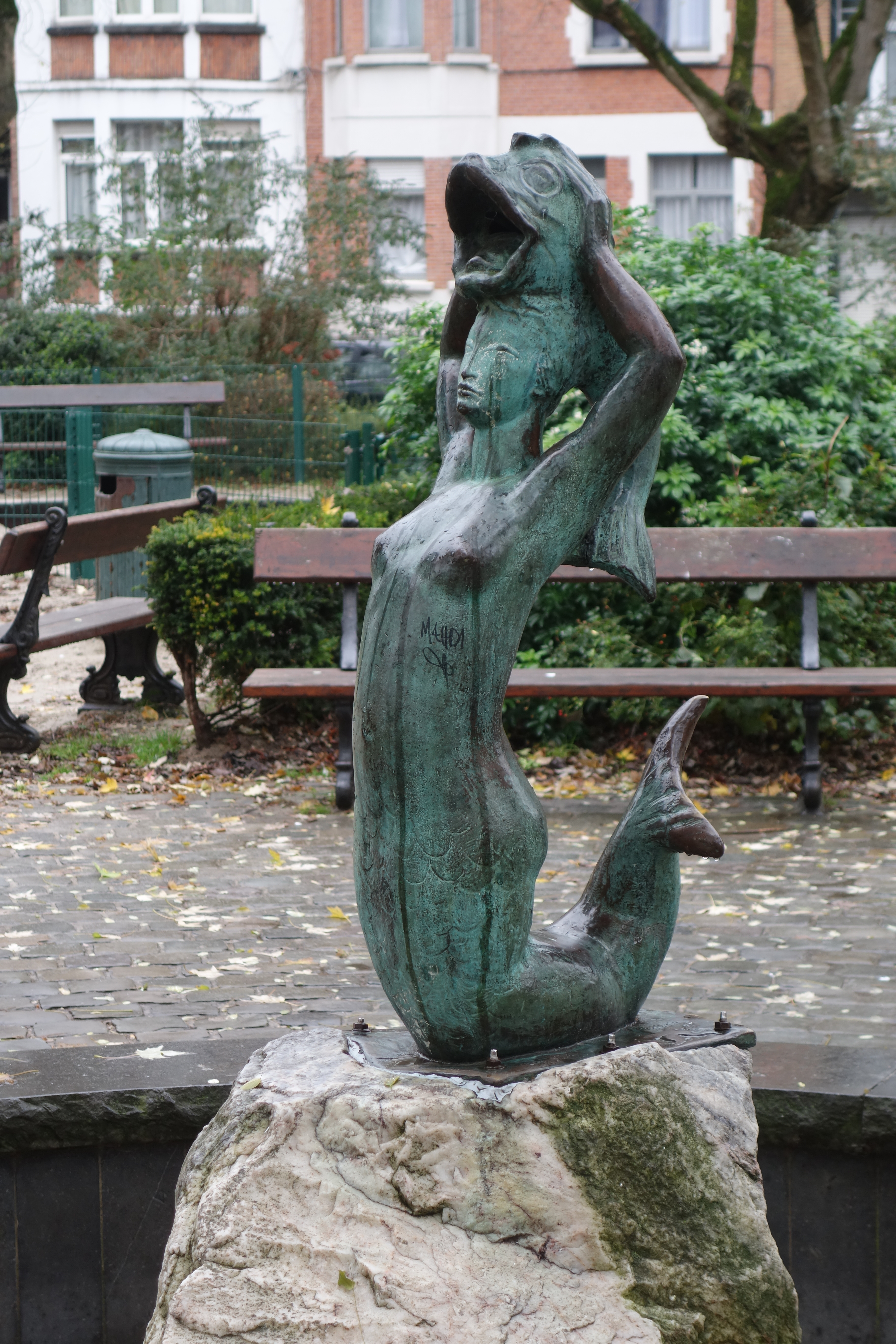 Leopoldstadplein, Etterbeek